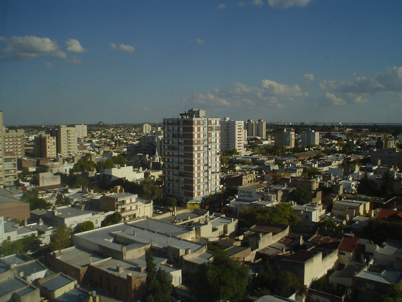 View of Bahia Blanca city, Argentina